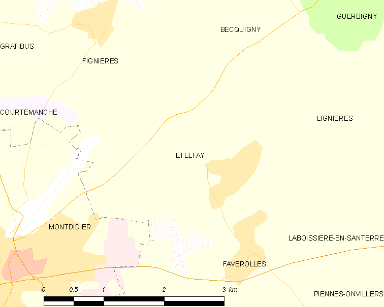 Map of French municipality Ételfay